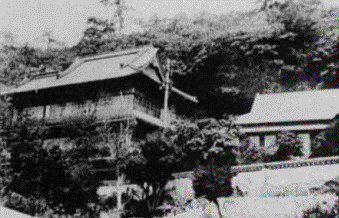 The place where the Treaty of Shimonoseki was negotiated between Japan and Qing dynasty.